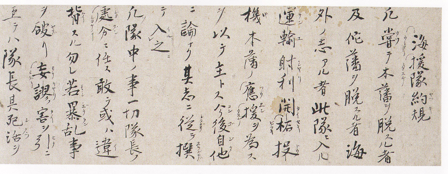 Rules of Kaientai